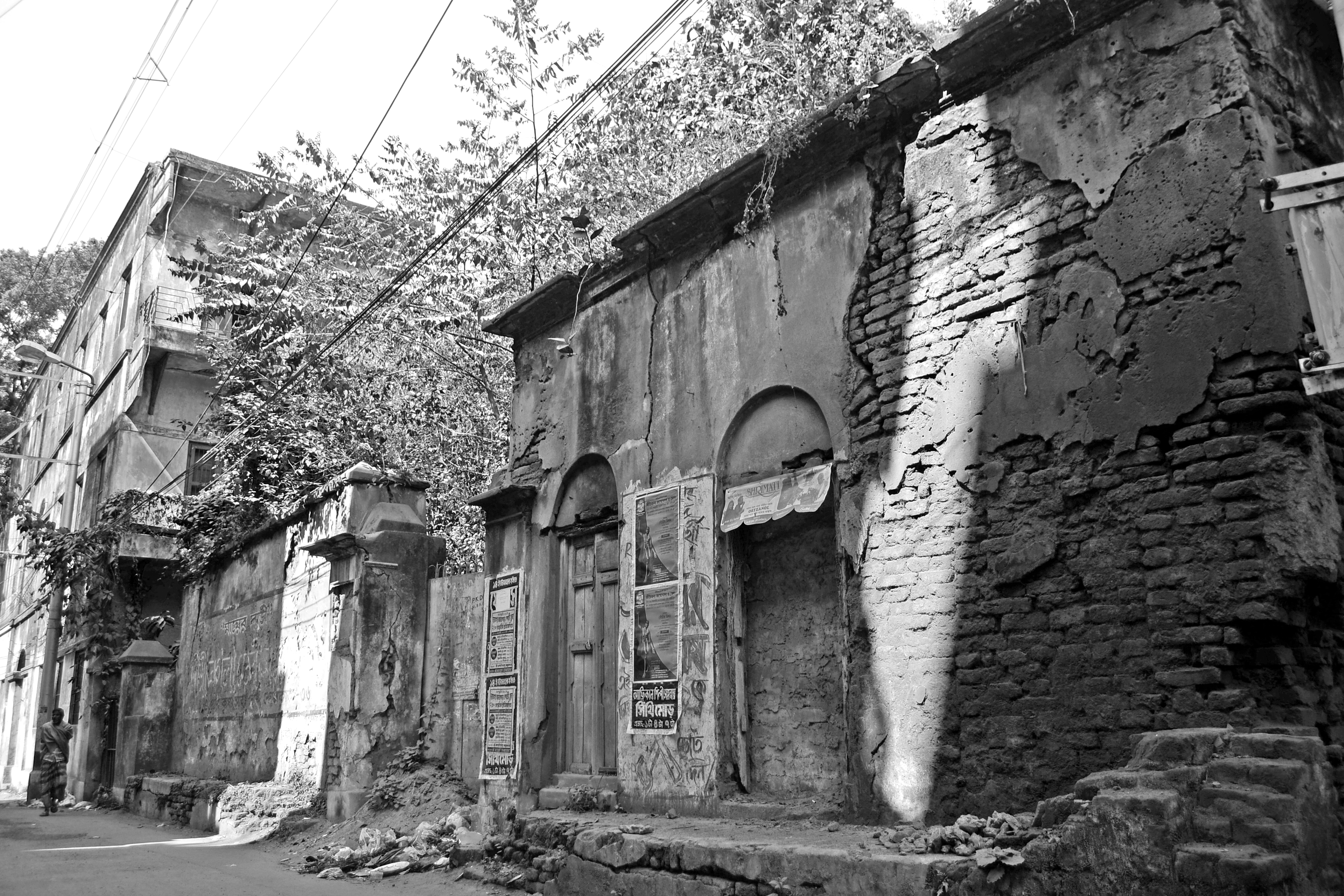 The remainants of old ruined Dutch Kuthi, on the way from RatanBabu ghat to Kuthi Ghat